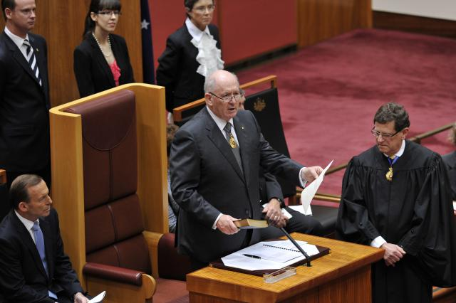 At Parliament House, Canberra, General the Honourable Sir Peter Cosgrove AK MC (Retd) attended a ceremony at which General Cosgrove was sworn-in as the twenty-sixth Governor-General of the Commonwealth of Australia.